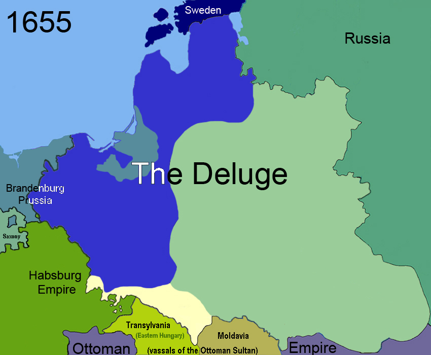 Deluge in Poland (1655–1660)